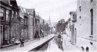 Gouda, 19th century